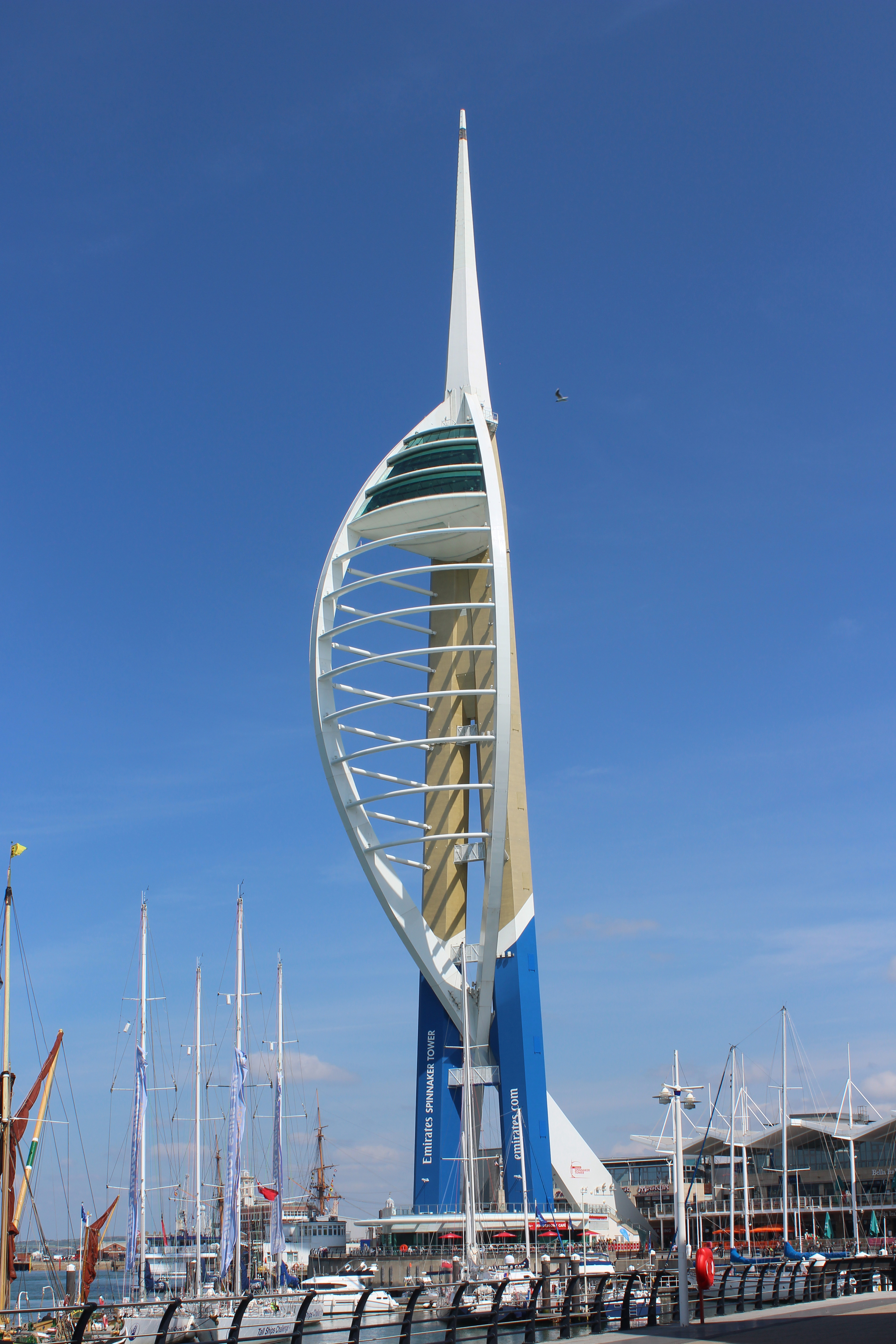 Emirates Spinnaker Tower, Portsmouth (height 170 metres, completed in 2005) in the colours of its sponsors. The photo was taken from the Millenium Walkway.